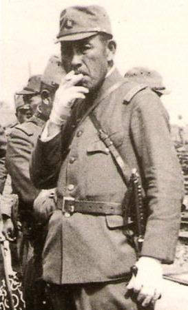 Japanese General Isogai Rensuke personal photo